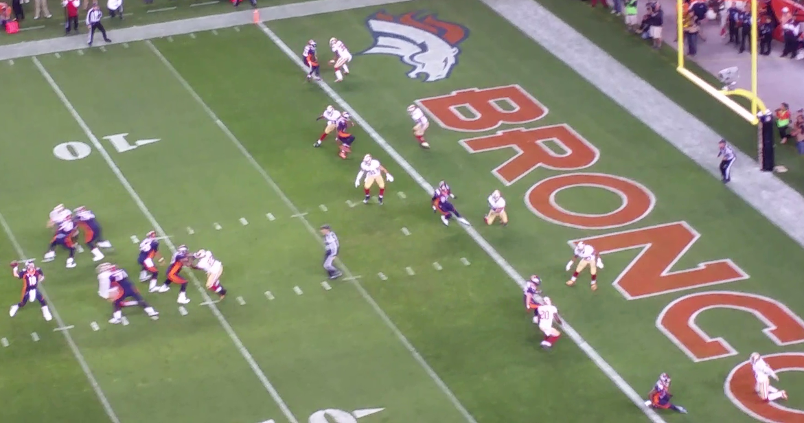 Peyton Manning of the Denver Broncos throwing his 509th touchdown pass. This game was at Mile High Stadium in Denver, CO on Sunday, October 19, 2014. It was his 3rd of 4 passing touchdowns in that game. With this touchdown Manning broke the all-time passing touchdown record, which was previously held by Bret Favre.